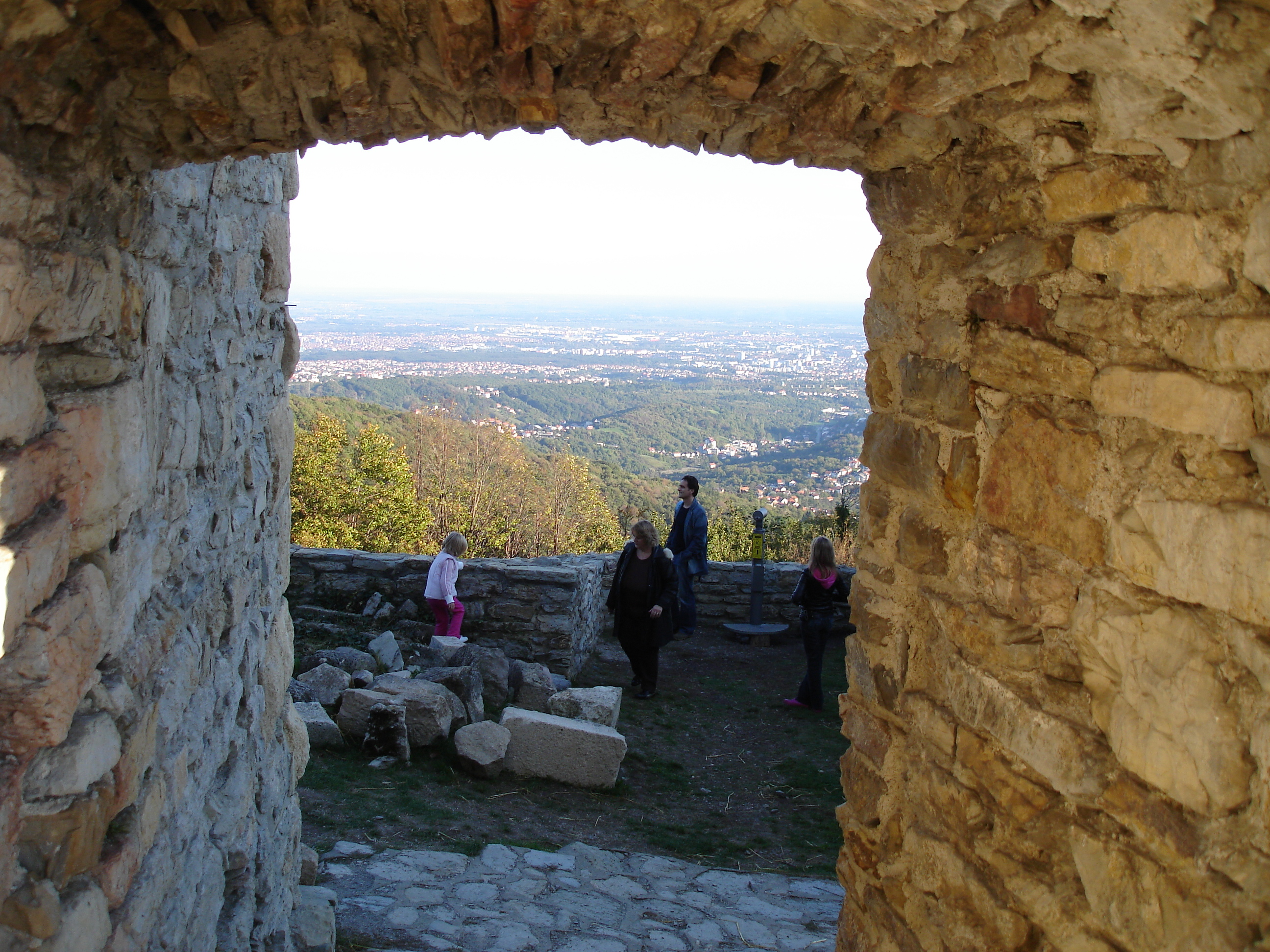 Scenic overlook Medvedgrad, Croatia